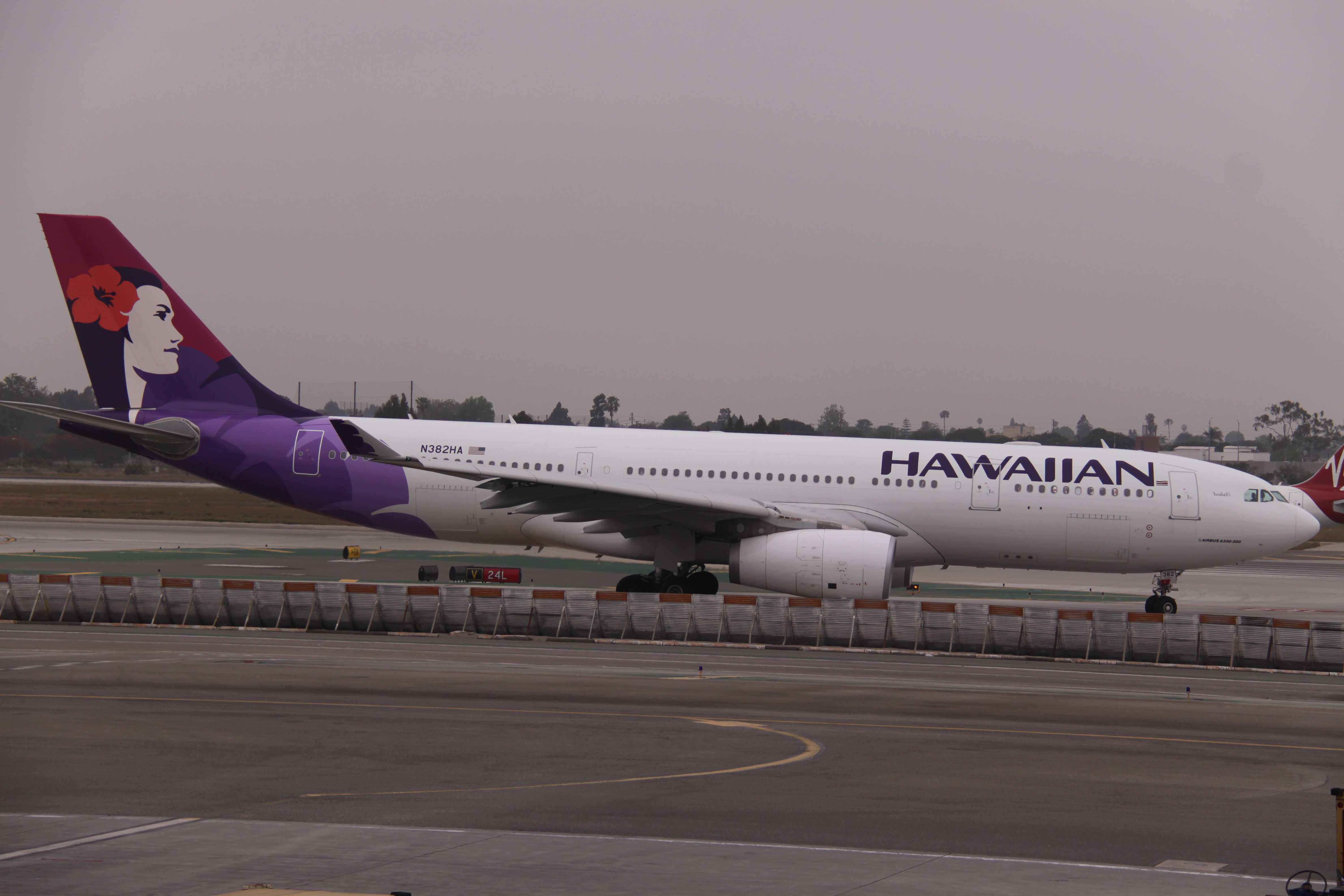 At Los Angeles International